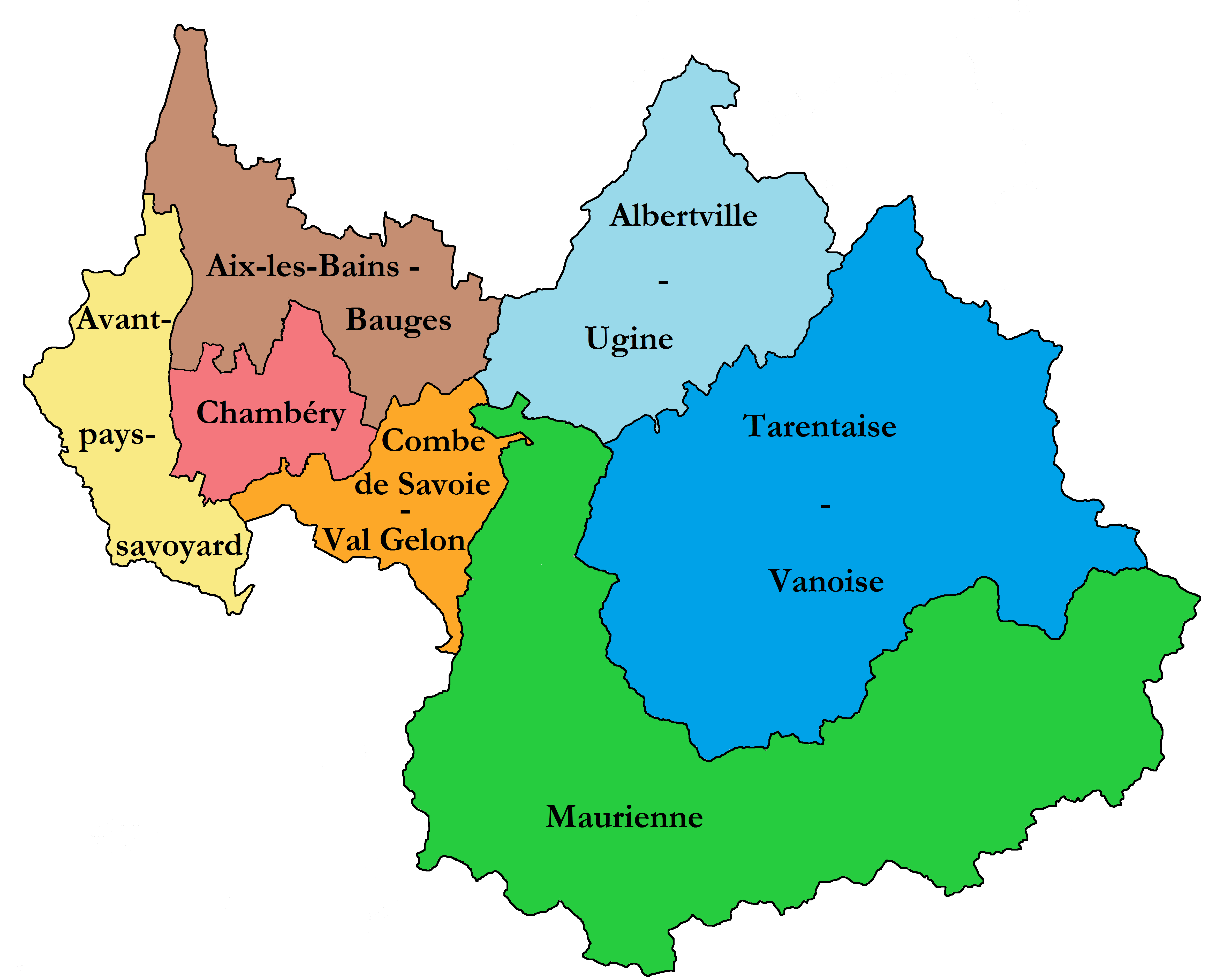 The seven territories of the department of Savoie, France, according to its conseil départemental (departmental council).